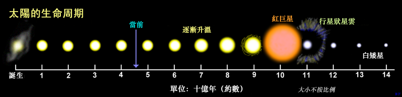 Illustration of the life-cycle of the Sun.